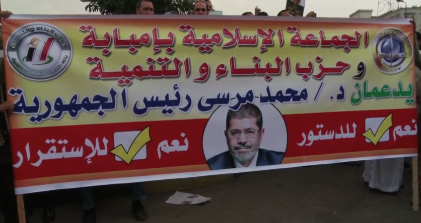 Egyptians go to the polls Saturday in the first day of voting on a controversial new constitution that critics say is too vague on important civil rights issues, and leaves the military in a position of power.